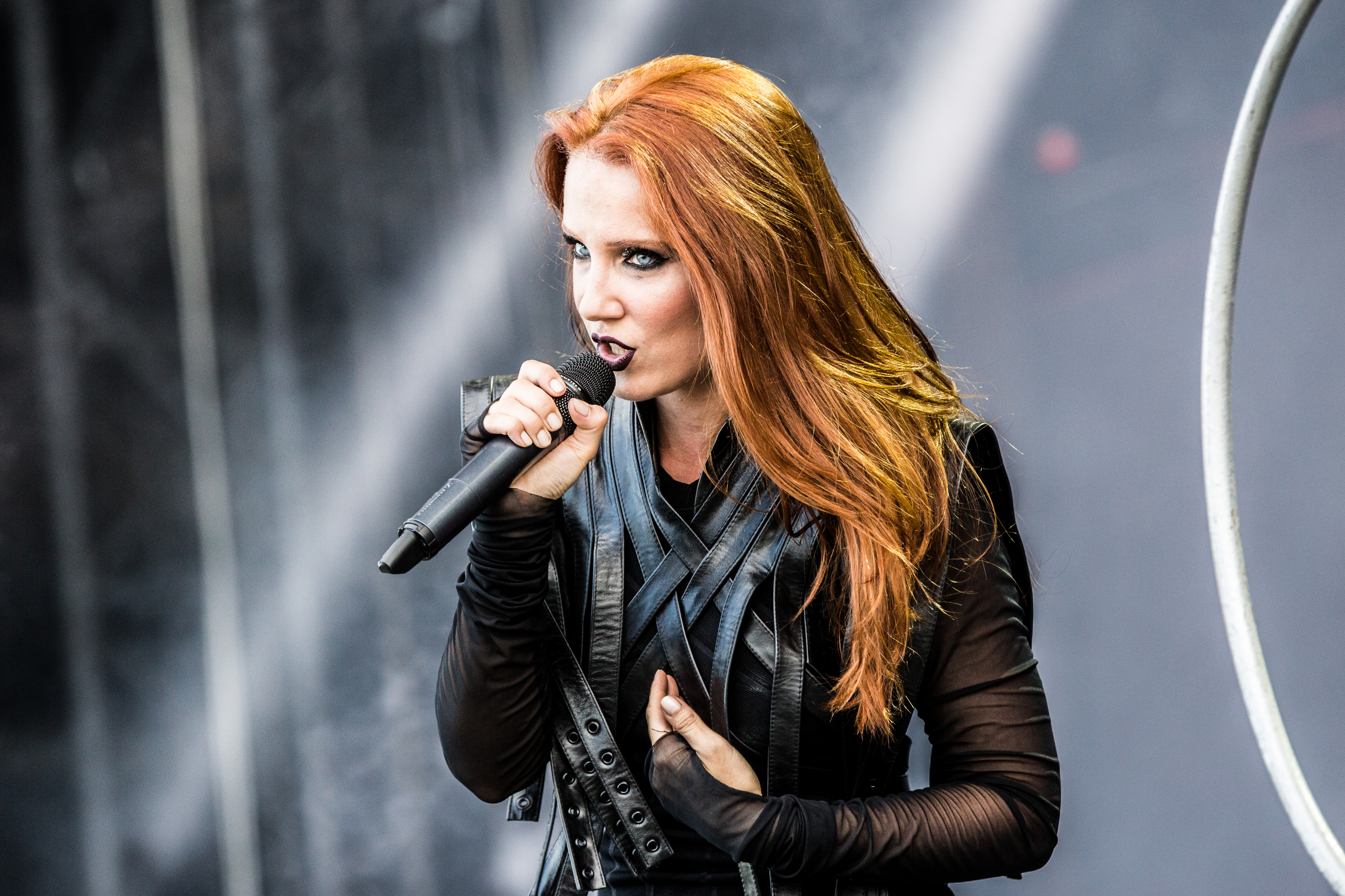 The Dutch symphonic metal band Epica at the Summer Breeze Open Air 2017 in Dinkelsbühl/Germany.